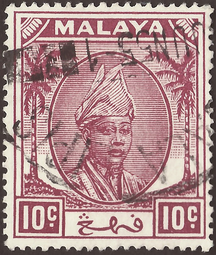 Stamp of Pahang (British Malaya); 1950; definitive stamps of the so-called "Coconut issue"; stamp drawing with a portrait of Sultan Sir Abu Bakar Ri-ayatu’d-Din Al-muadzam Shah ibni Al-marhum Al-mu’tasim Bi’llah Sultan Abdullah (1904—1974) in oval flanked by two coconut palms. The Sultan wears the distinctive Tengkolok of the Pahang Sultans with no downward fold at the front.; stamp postmarked in Kuala Lipis, 1955 Stamp: Michel: No. 51; Scott No. 56 Color: brownis dark purple to ruby Watermark: Pahang No 2 (multiple St.Edwards'crown over convoluted character "CA") Nominal value: 10 C (Cents) Postage validity: from 1 June 1950 until ? Stamp picture size (printed area): 19.0 x 22.5 mm Postmark: Kuala Lipis (then capital of Pahang), June 1955